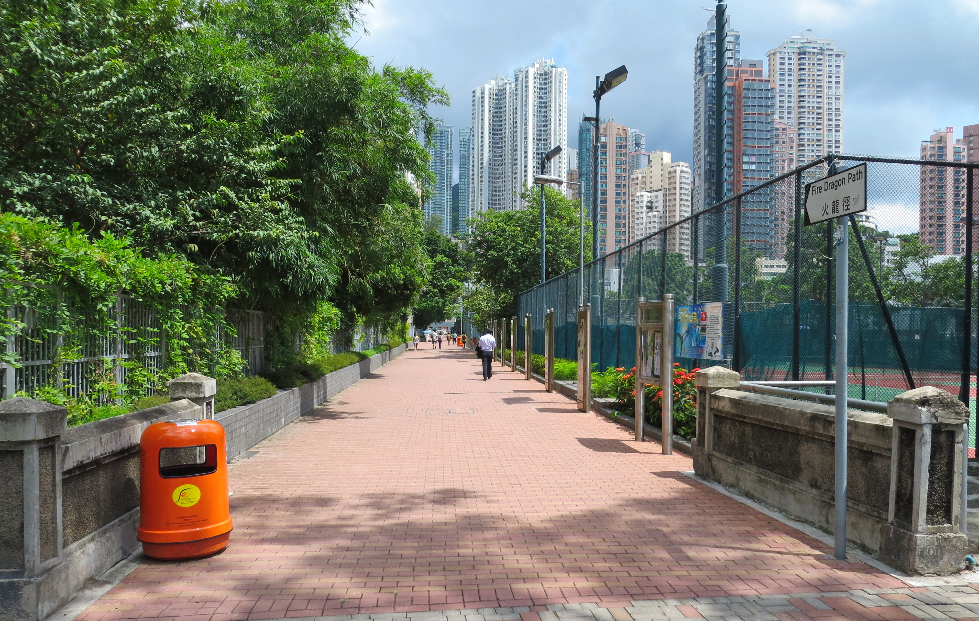 Fire Dragon Path, Causeway Bay, Hong Kong.